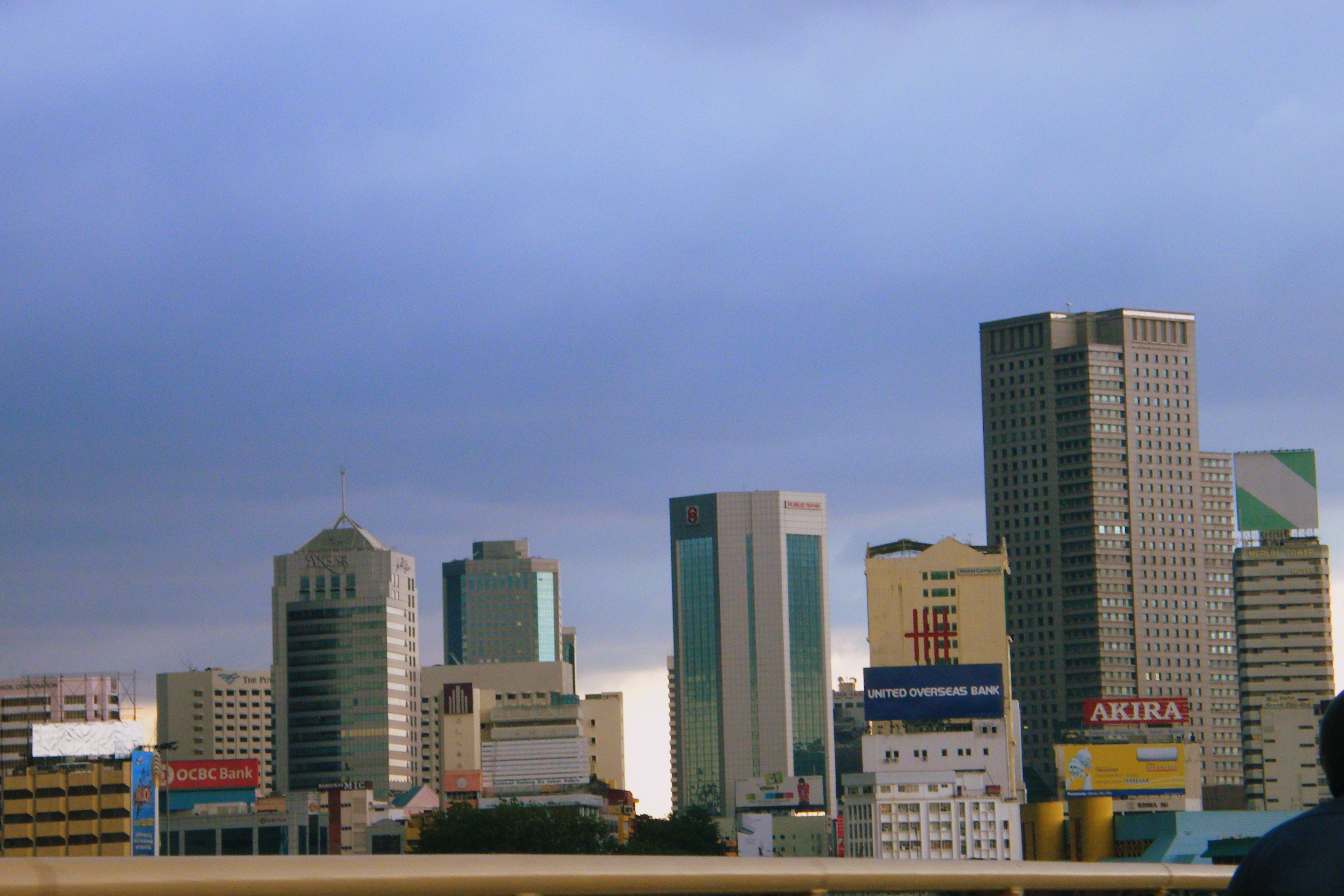 Skyline of Johor Bahru